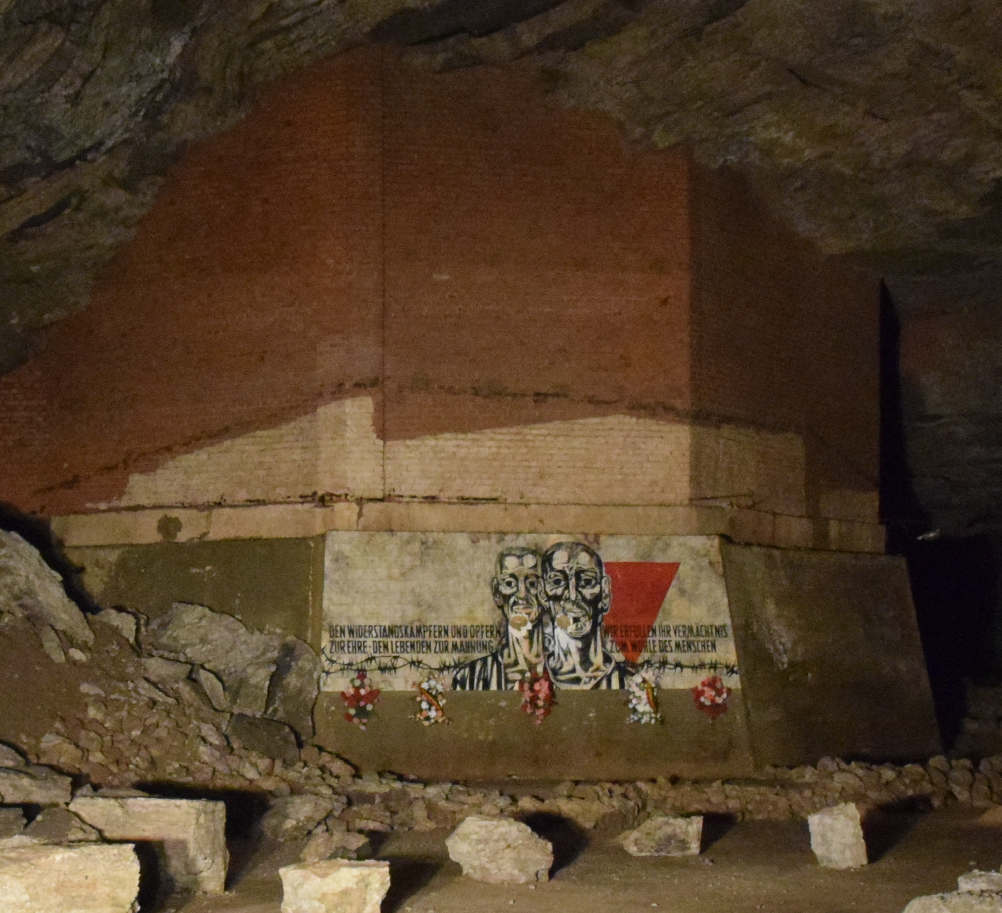 This is a photograph of an architectural monument. 84525